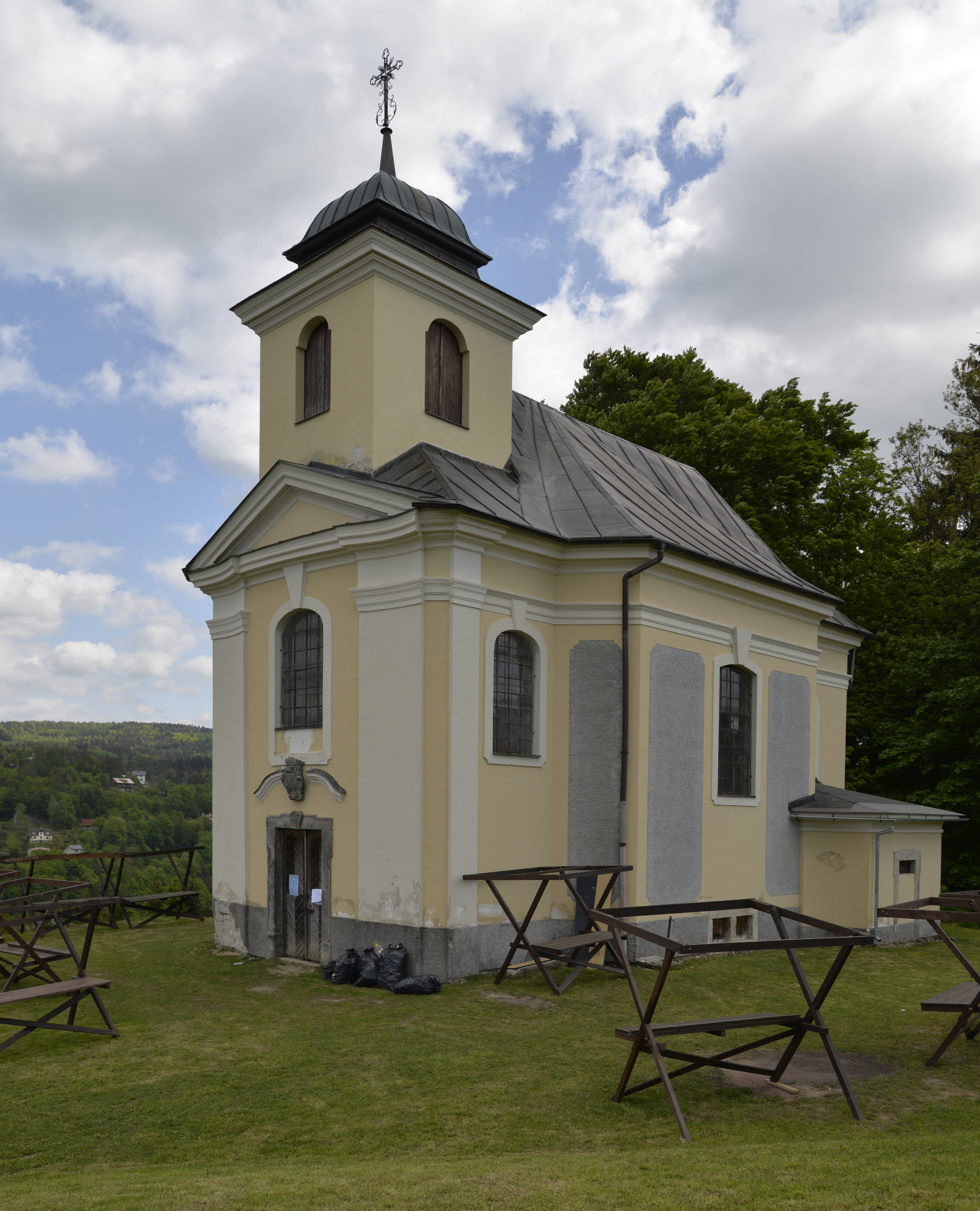 Saint John of Nepomuk church in Železný Brod, Na poušti, parc. 656, Železný Brod.